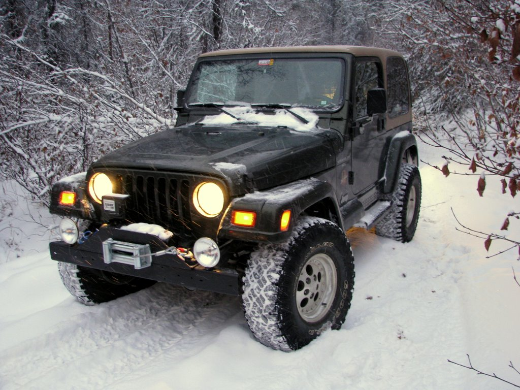 A Jeep Wrangler TJ with a 2 inch suspension lift, 1 inch body lift, 12,000 pound winch and 33 inch tires offroading in the snow in Alaska.